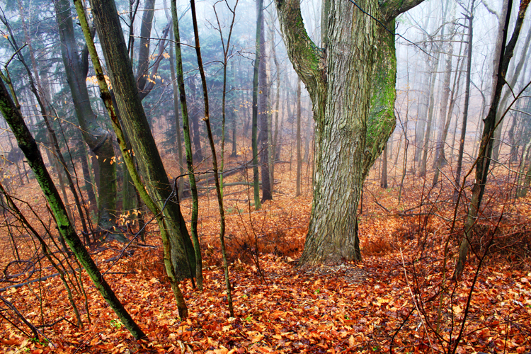 A view of the Black River Valley (Michigan) in the fog.